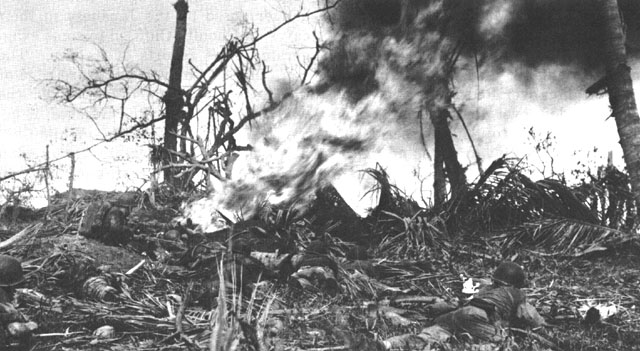 A Marine fighting on Guam uses flamethrowers against Japanese positions on Adelup Point.